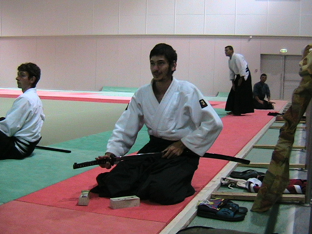 Preparation of the sword (iaito) before practicing (Jonathaneo); Lesneven aikido's international training